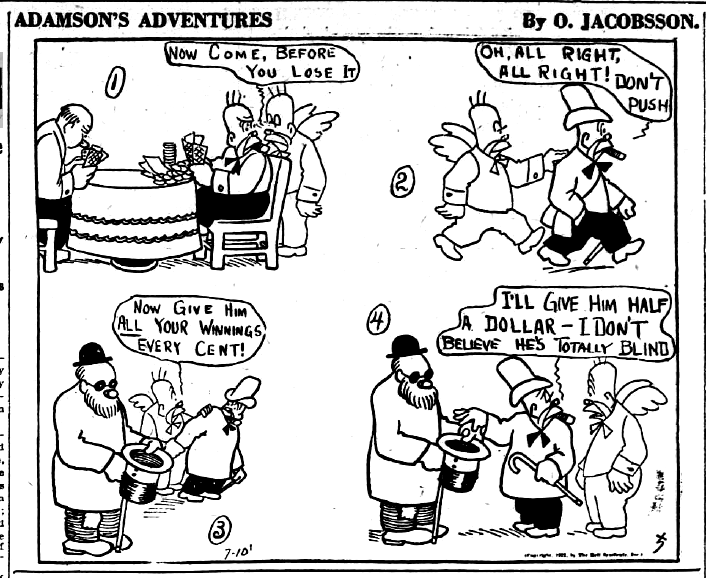 Adamson's Adventures comic strip from 1922. The angel sort of looks like Homer Simpson...